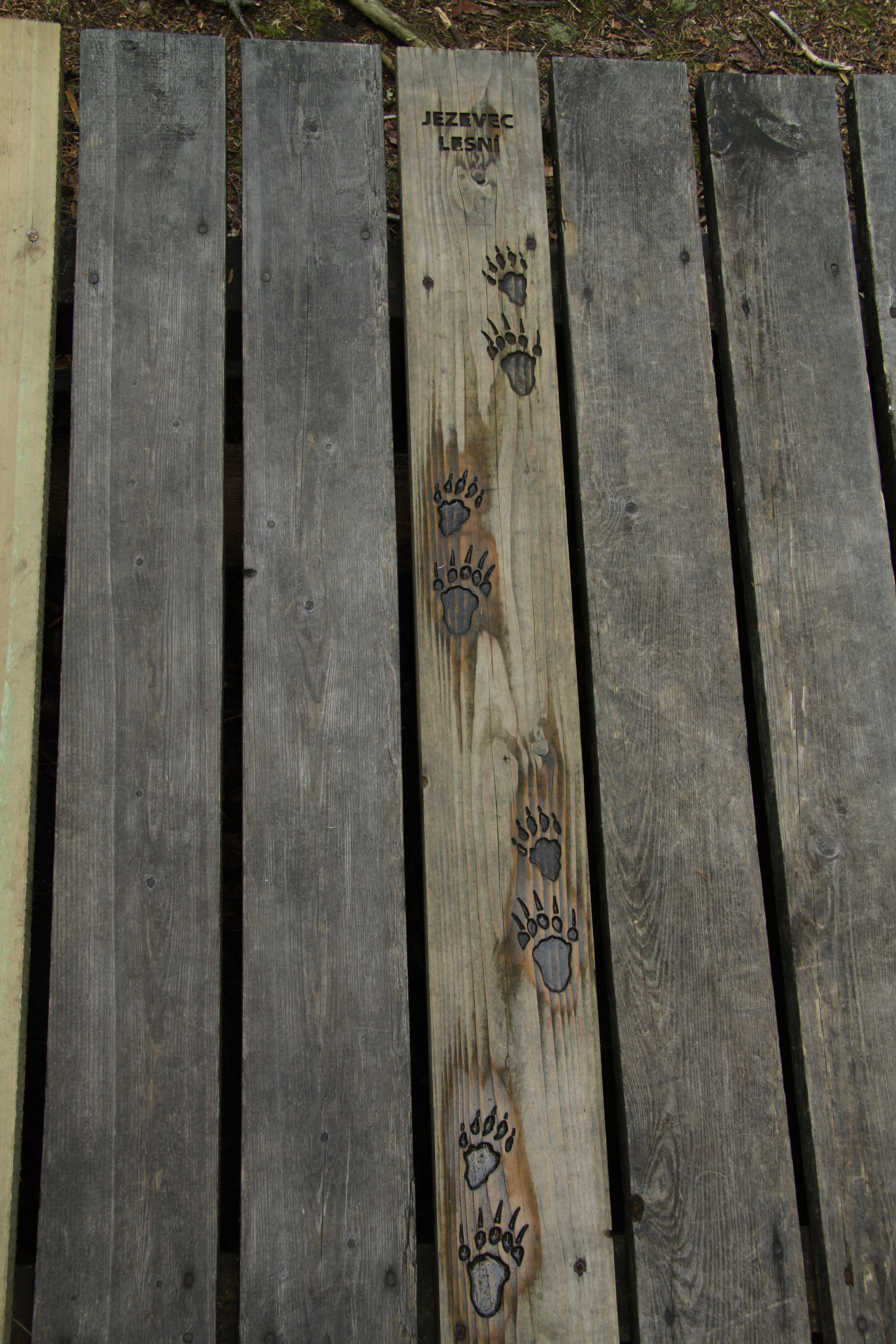 Foot print of Meles meles. National nature reserve Kladské rašeliny near Prameny village in Cheb District, Czech Republic